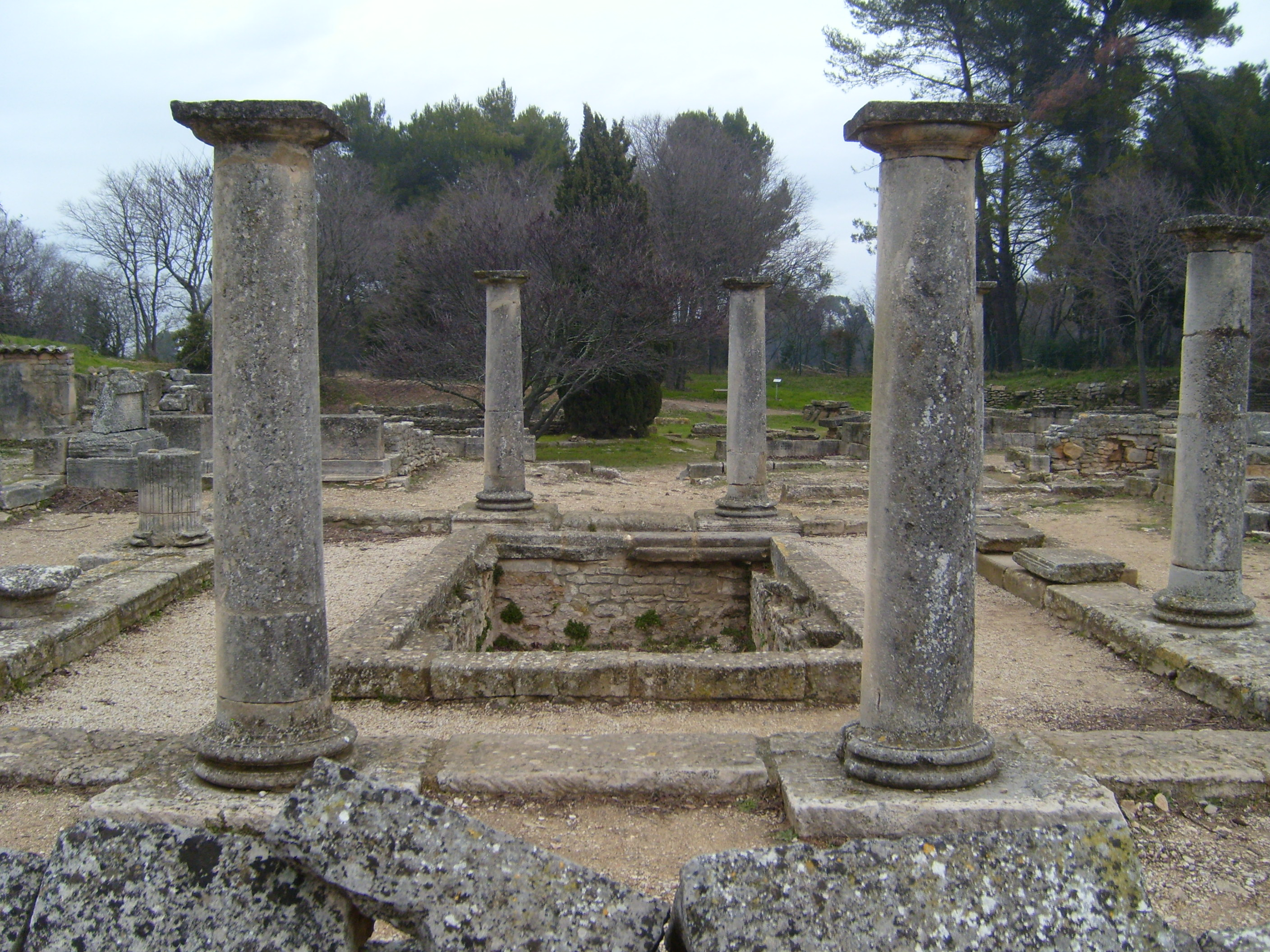 Maison des Antes, Glanum. A Hellenistic-style residence with a peristyle.